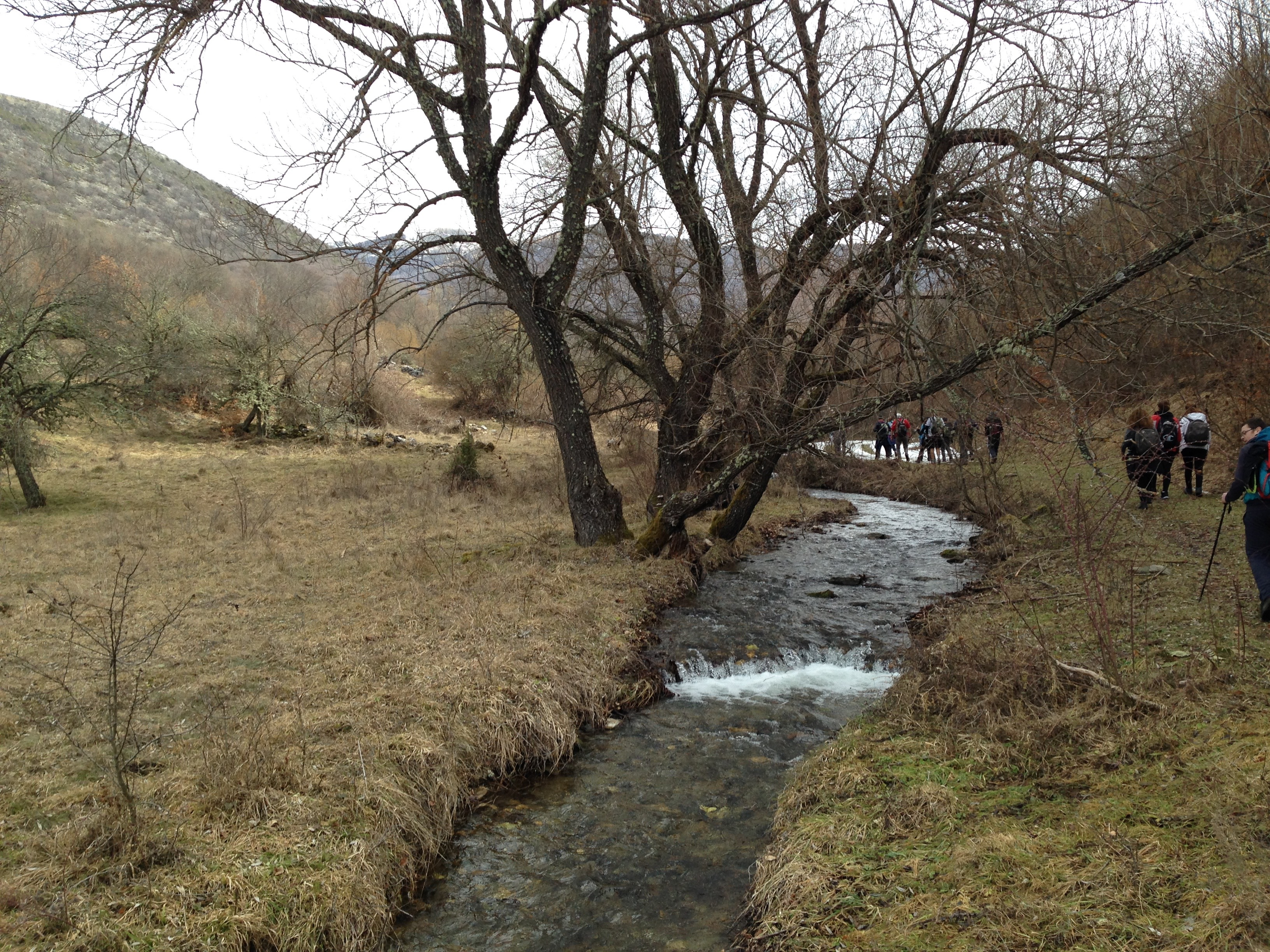 Krapa River in Macedonia